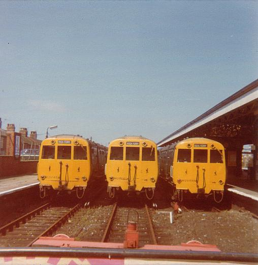 Three sets of Wirral and Mersey electric units await their next duties in the western, terminus platforms at Rock Ferry. In 1973, the station was split into three units: that shown for the service from Liverpool Central (Low Level); two terminus platforms for the diesel services for Chester and Helsby, connected to the right hand platform in this picture via a walkway across the former trackbed; and lastly a pair of goods lines for residual services from Chester to Birkenhead Docks.